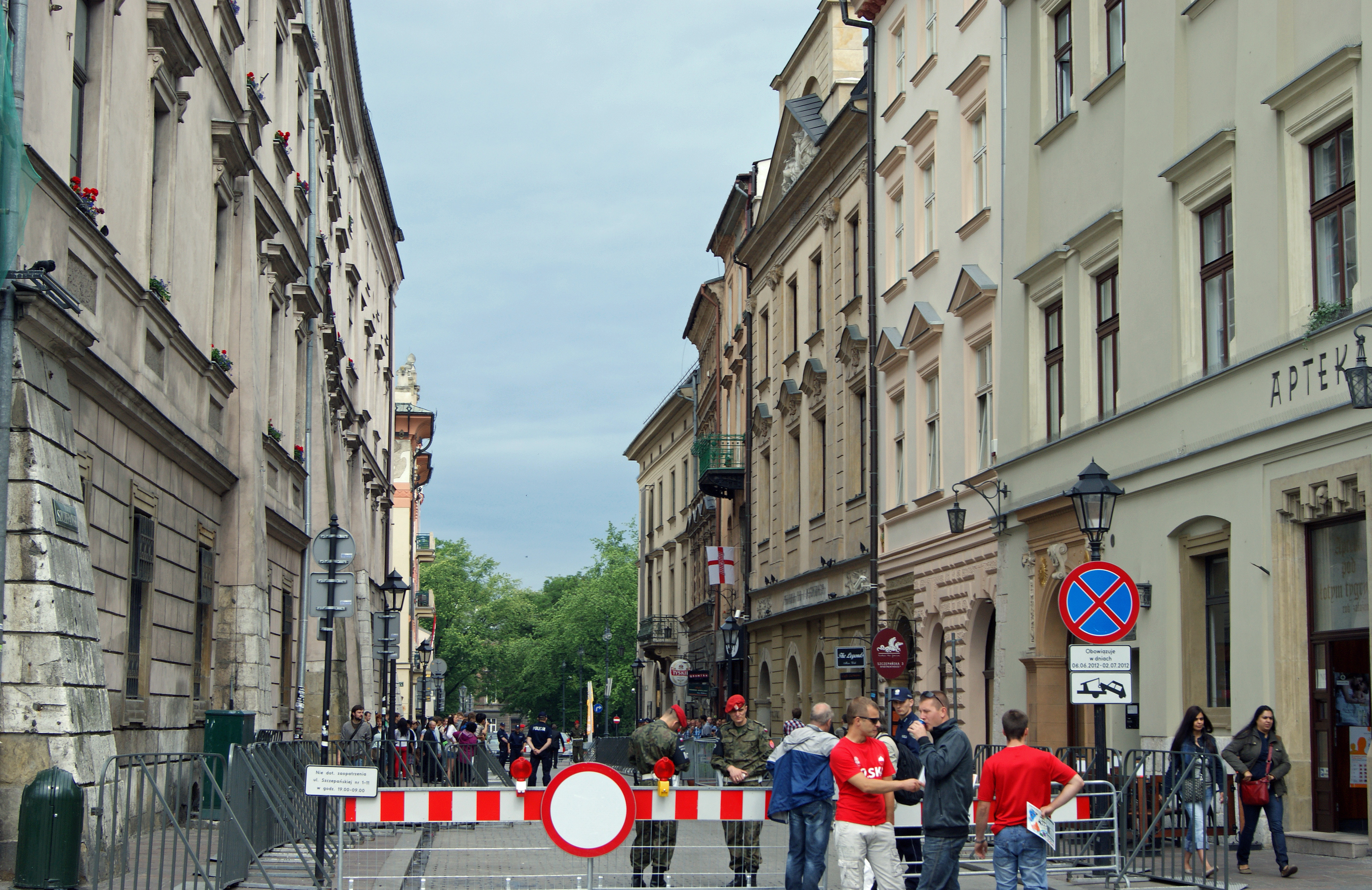 Szczepanska street (view to W), Old Town, Krakow, Poland